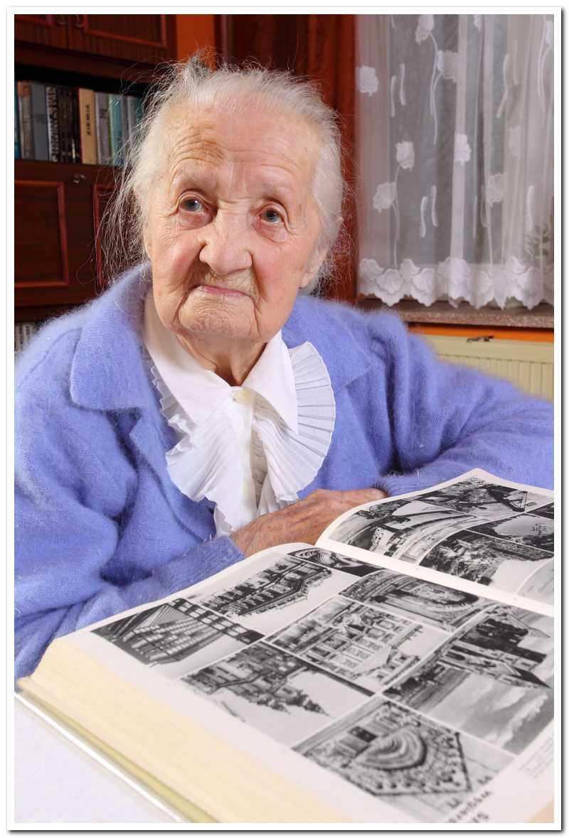 Aleksandra Dranka, the oldest citizen of Poland (1903-2014)